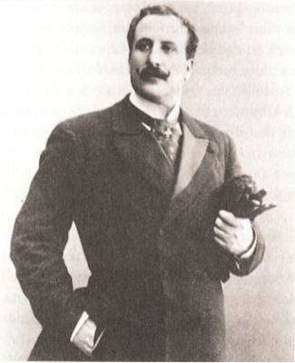 Photo of italian opera singer Mattia Battistini